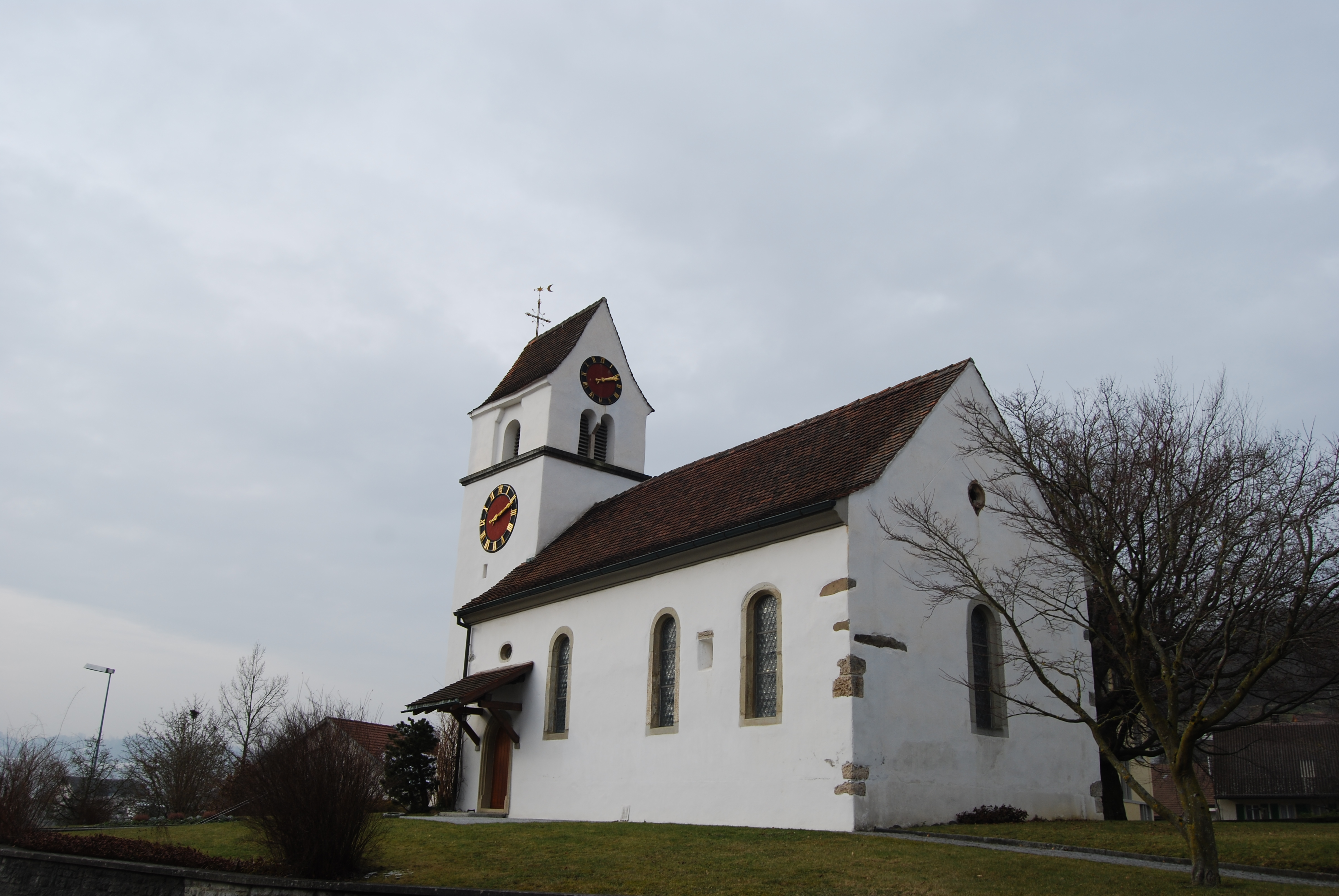 Church of Egliswil, canton of Aargau, SwitzerlandEsperanto: Preĝejo de Egliswil, Kantono Argovio, Svislando